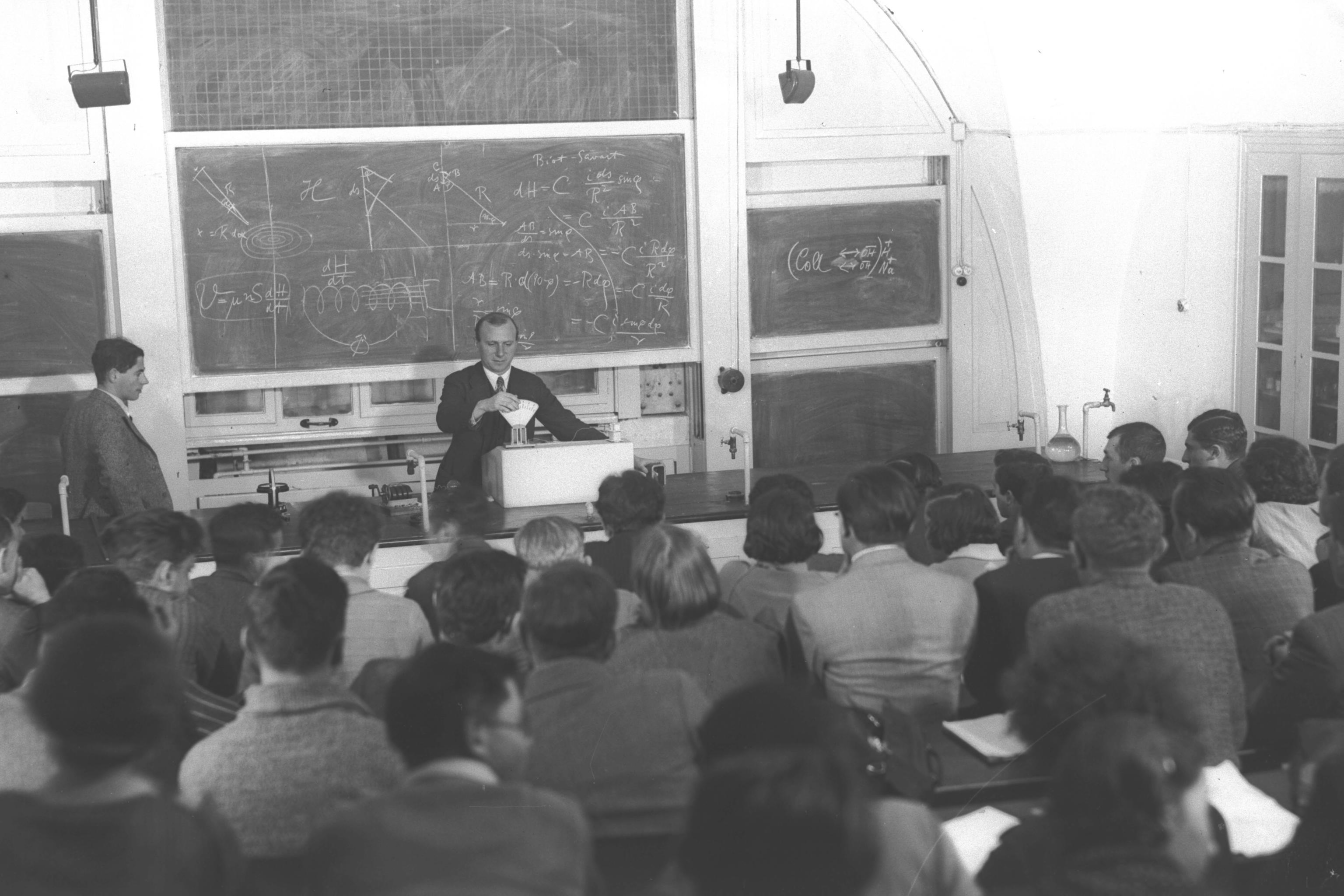 PROF. SAMBURSKY DURING A LECTURE IN THE INSTITUTE OF PHYSICS AT THE HEBREW UNIVERSITY IN JERUSALEM.